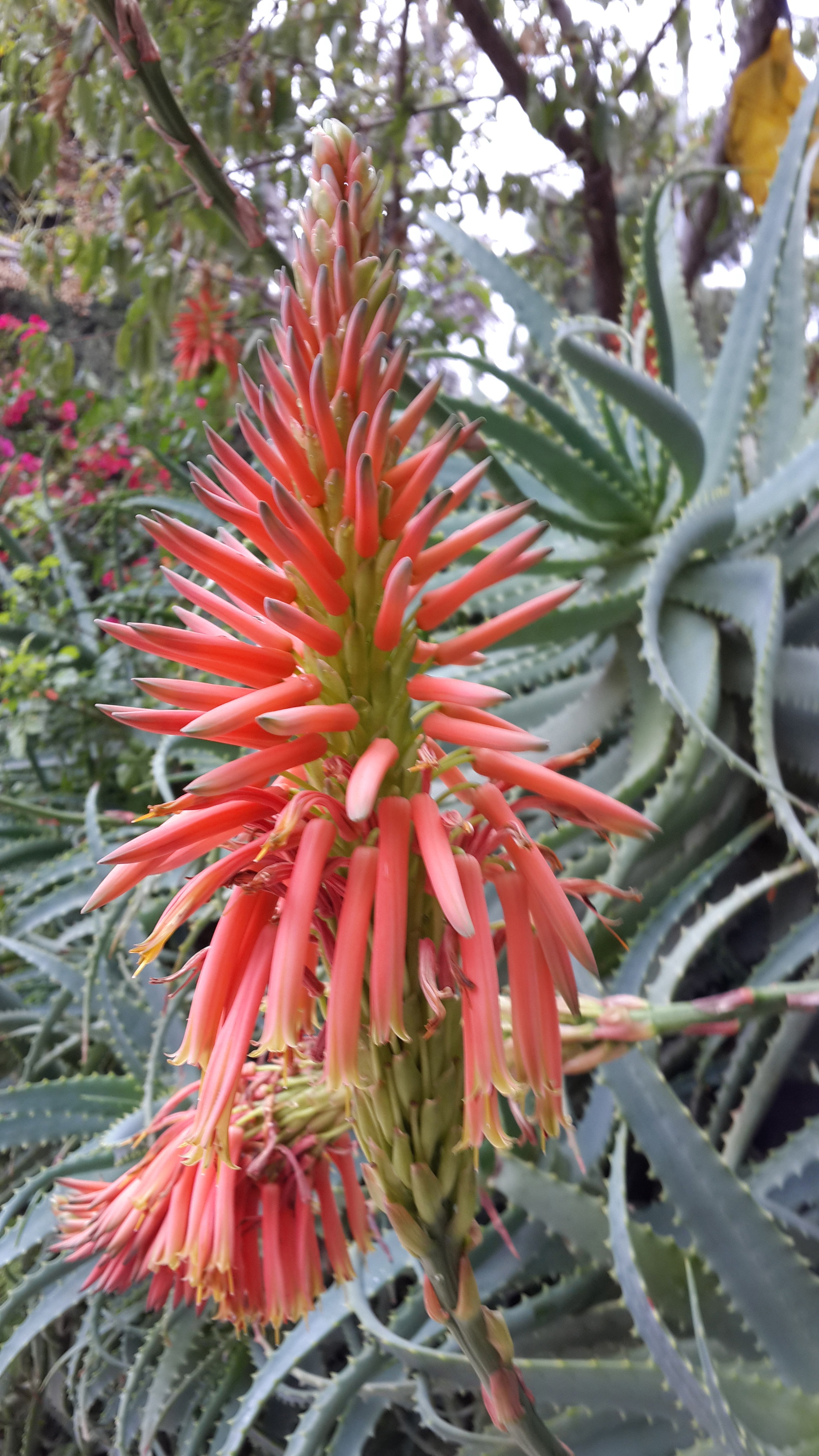 Aloe arborescens blooming.